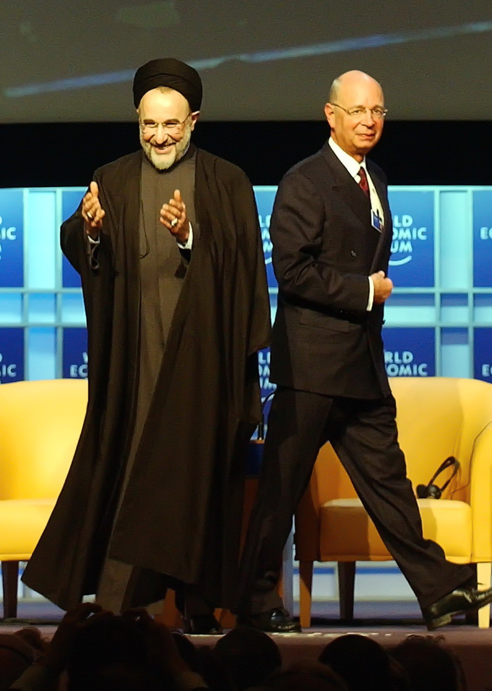 DAVOS/SWITZERLAND, 21JAN04 - H.E. Hojatoleslam Seyed Mohammad Khatami (L), President of the Islamic Republic of Iran, and Klaus Schwab (R), Founder and Executive Chairman, World Economic Forum, during the Welcome to the Annual Meeting 2004 of the World Economic Forum in Davos, Switzerland, January 21, 2004. Copyright by World Economic Forum by Remy Steinegger +++no resale, no archive+++